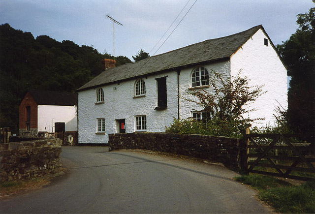 Oakford: Oakfordbridge Mill. A watermill on a leat from the nearby river Exe, now a private residence. The mill retains its undershot waterwheel